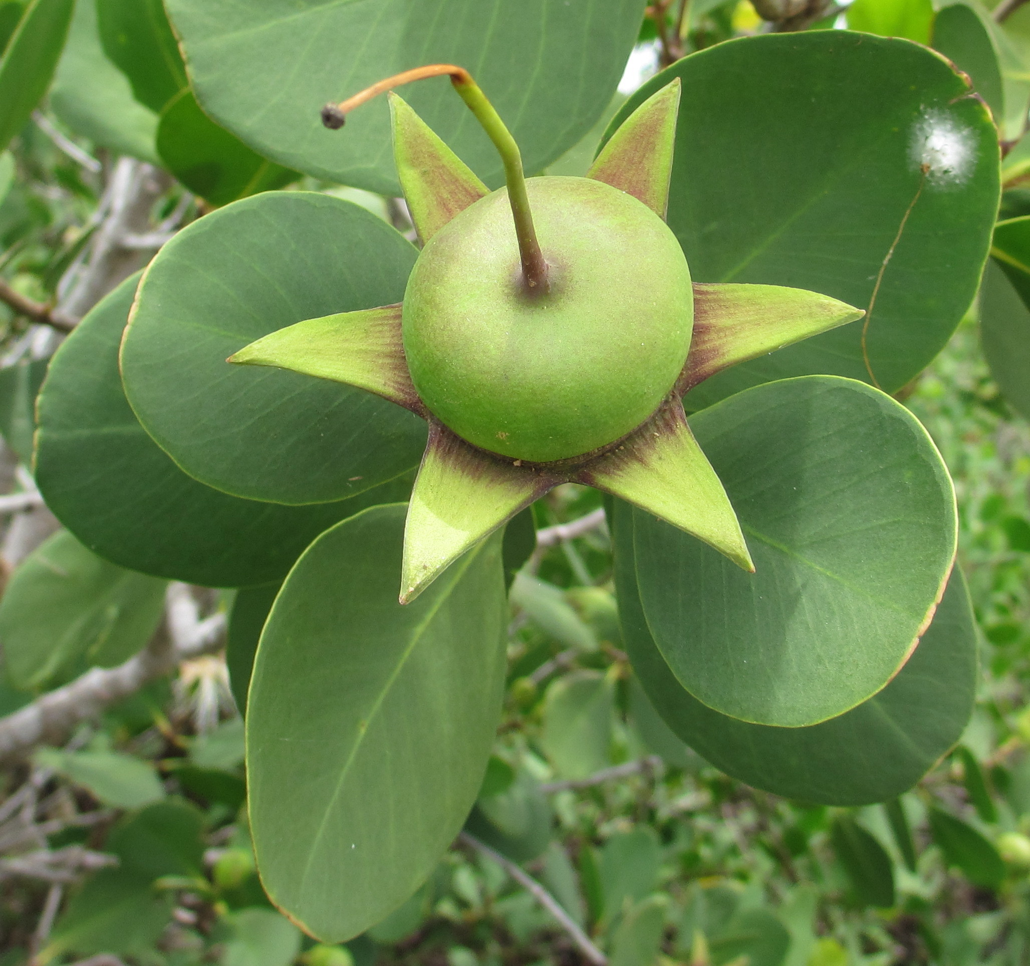 The fruit of Sonneratia alba. Pemba Bay, northern Mozambique.